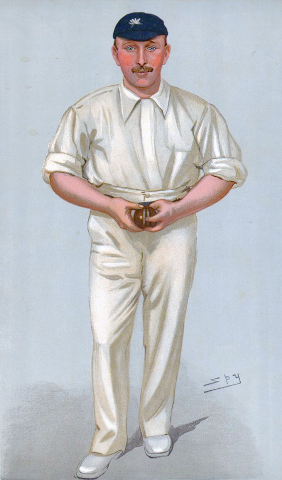 Caricature of George Hirst (1871–1954), a Wisden Cricketer of the Year (1901): the lithography is by Vincent Brooks, Day & Son.